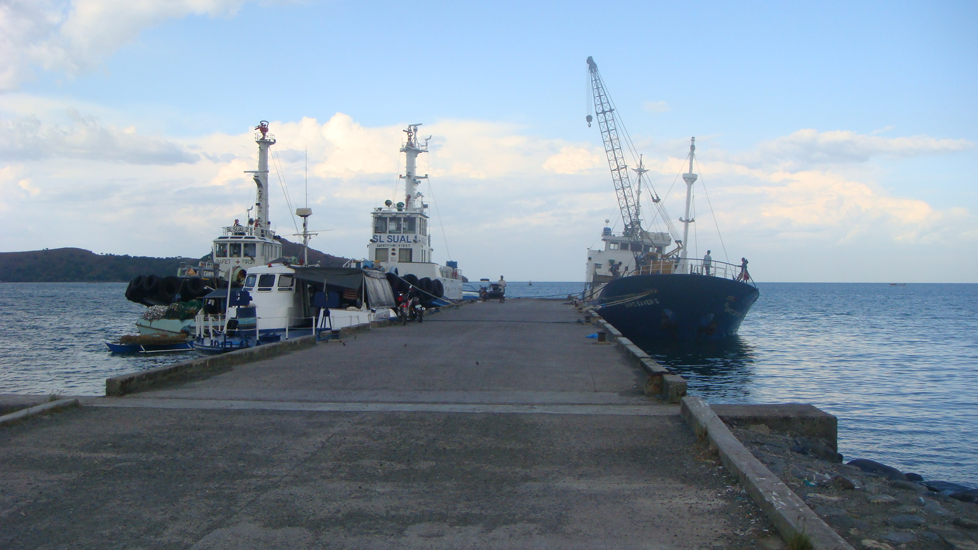 PSDA, Fish Port Complex, Sual, Pangasinan (Poblacion)